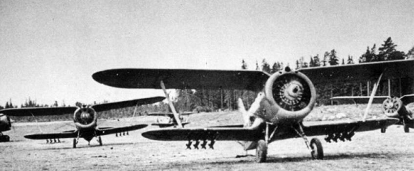 Polikarpov I-153 plane with RS-82 rockets, pre 1941